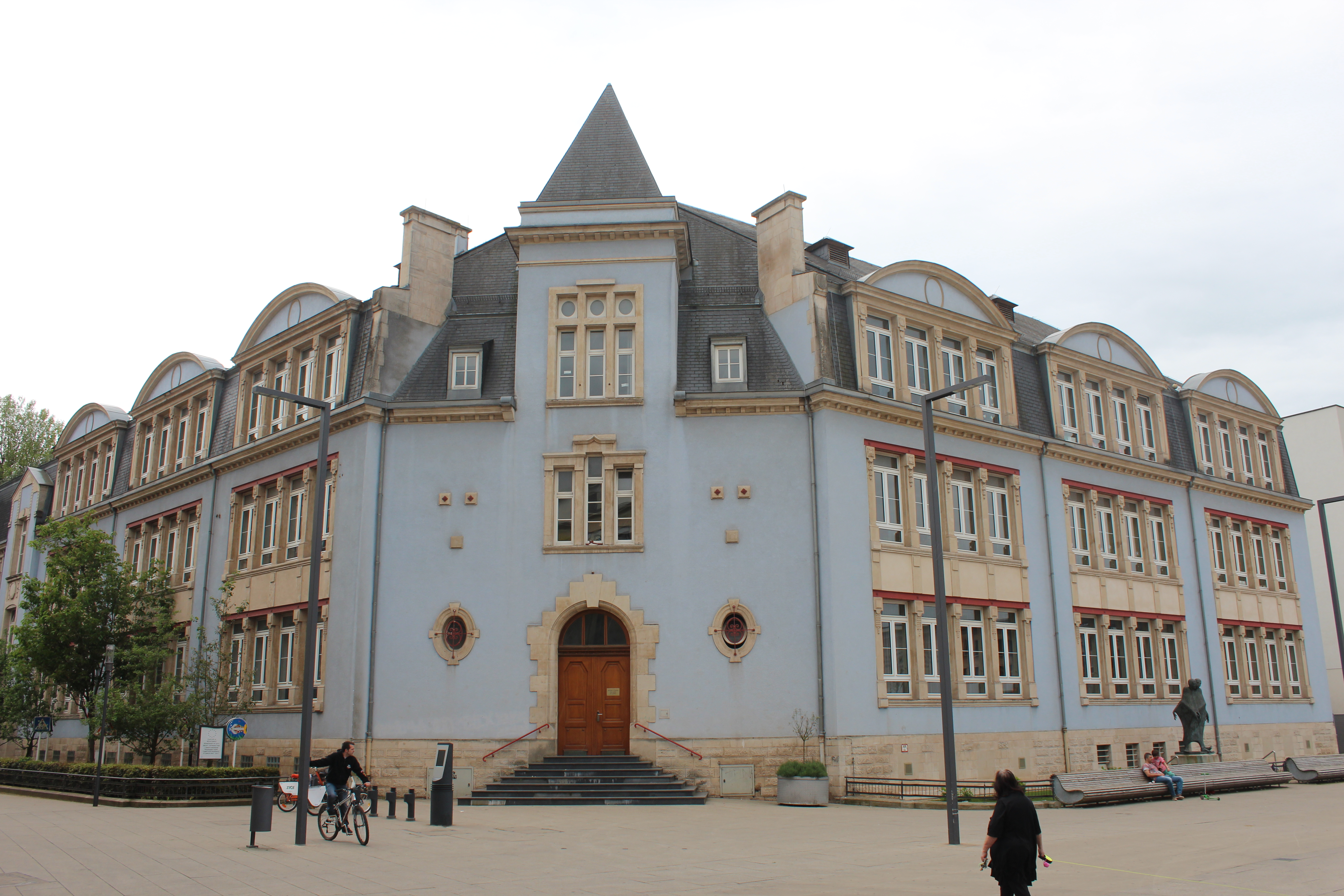 Ecole du Brill (Brillschoul) in Esch-sur-Alzette. Inaugurated on 11 December 1911.